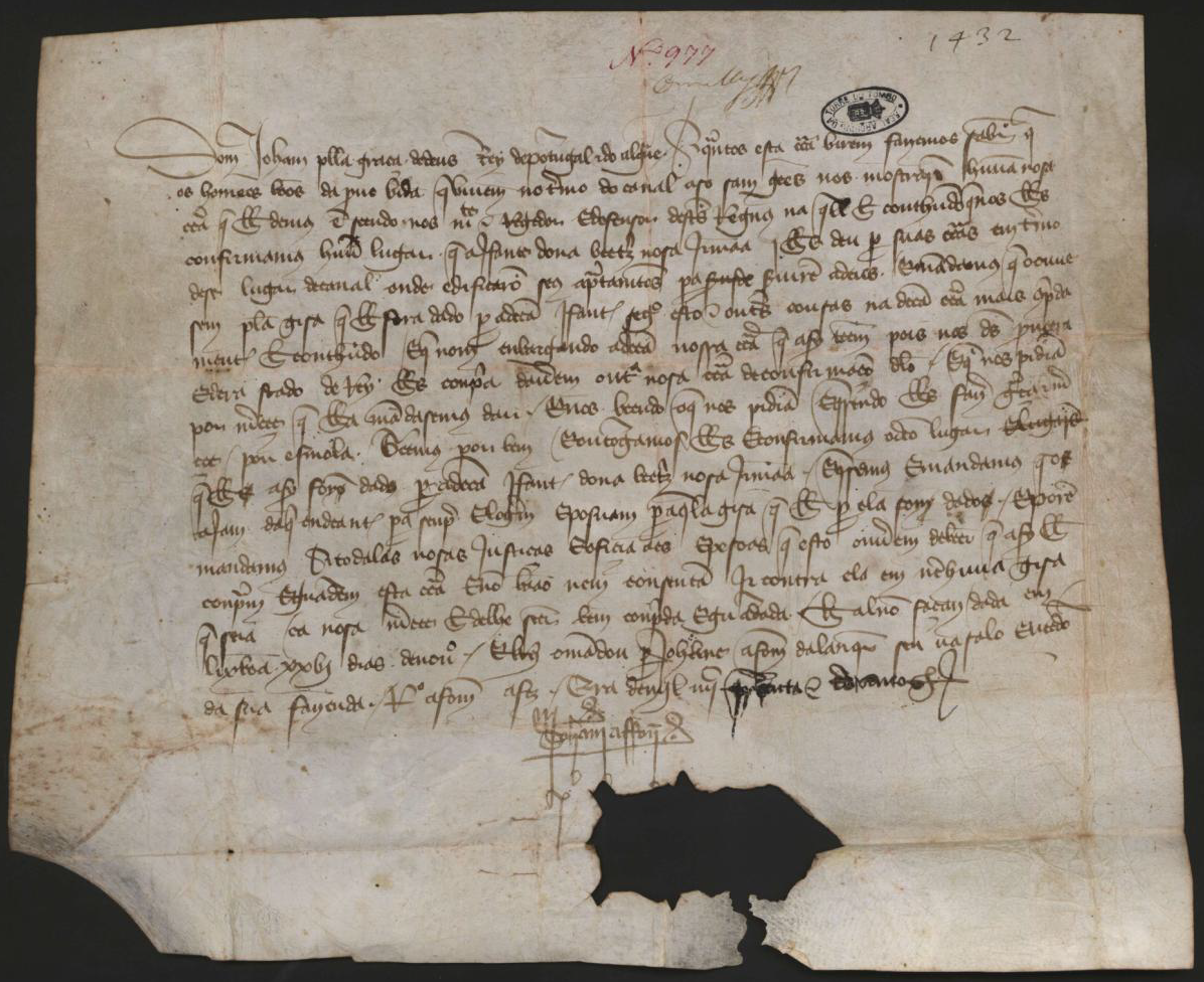 A 1394 document from King John I of Portugal's Royal Chancery, penned by Rodrigo Afonso. Torre de Tombo National Archives, Lisbon, Portugal.